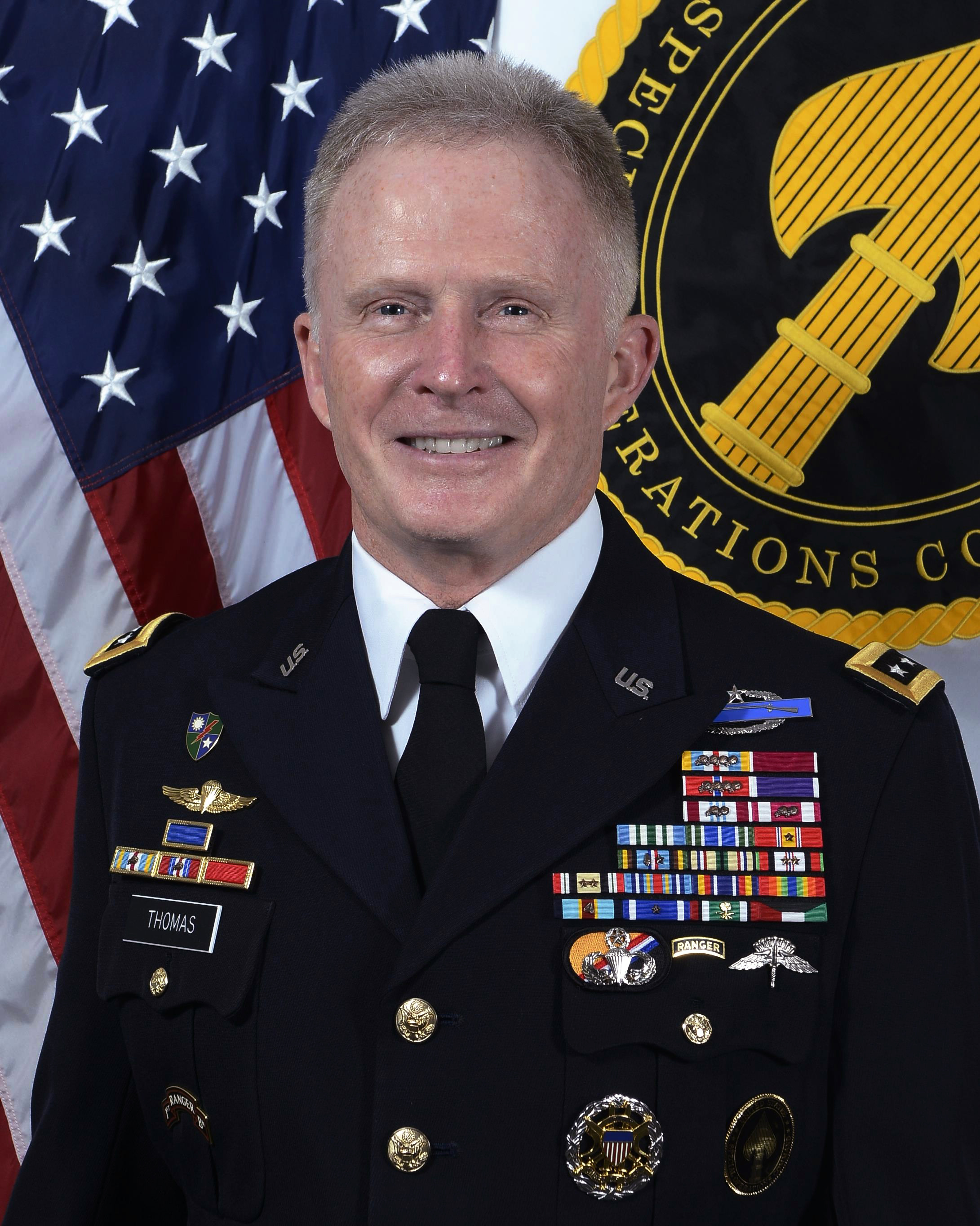 General Raymond A. Thomas III, USA 11th Commander of U.S. Special Operations Command